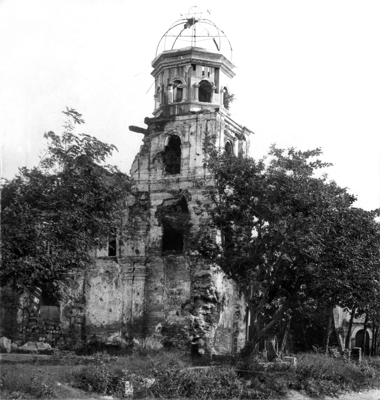 Kawit Church or the Saint Mary Magdalene Parish Church, in Kawit — in 1898 after it was bombed by the Americans. In Cavite Province, Luzon, the Philippines.